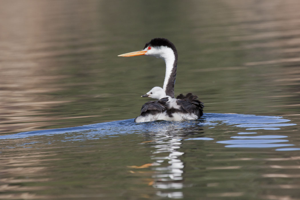 A Clark's Grebe swimming on Santa Margarita Lake, San Luis Obispo County, California, USA. It has juveniles riding on its back.